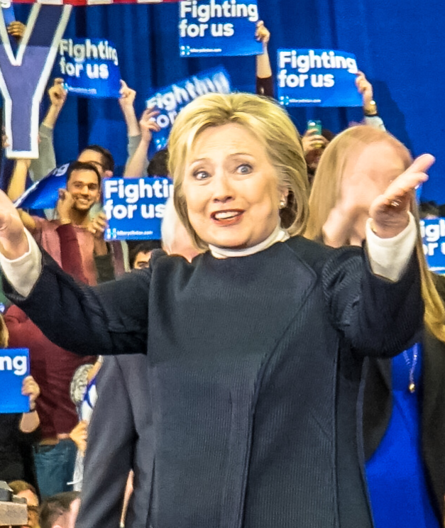 Speech to supporters after conceding to Bernie Sanders, Hooksett New Hampshire, USA